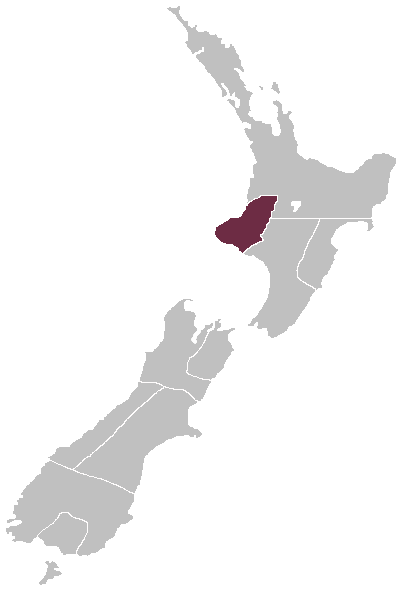 Boundary of New Plymouth Province, New Zealand from 1853 – 1876